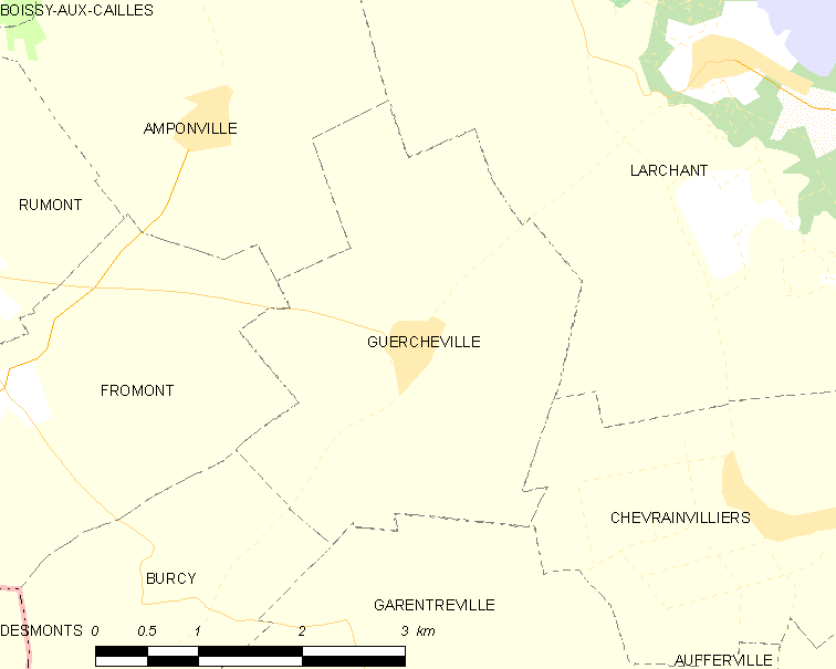 Map of French municipality Guercheville